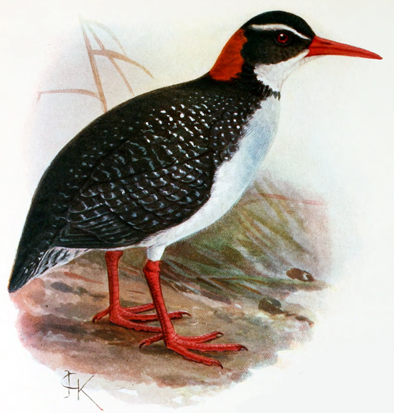 Tahiti Rail Two-Thirds Natural Size—from Forster's drawing in British Museum (Gallirallus pacificus). From 'Extinct Birds' by Lionel Walter Rothschild from the year 1907.